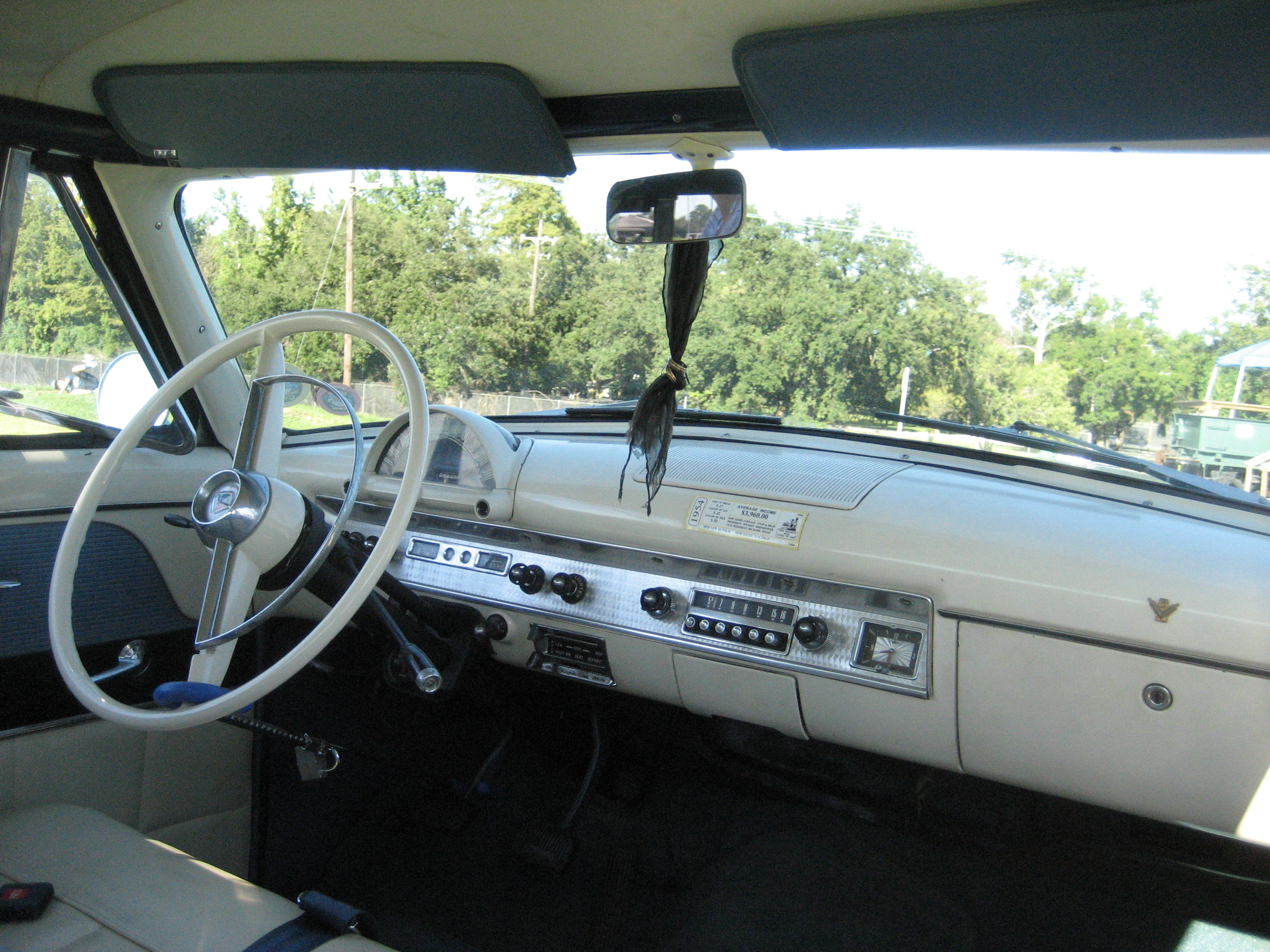 1954 Ford Victoria photographed at the Audubon Park Butterfly, New Orleans. Interior dashboard.